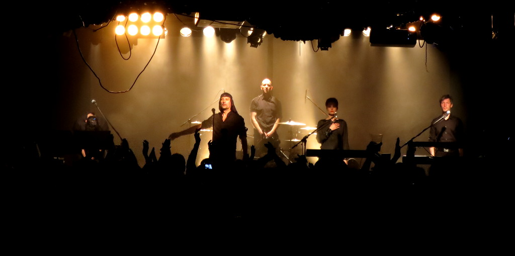 Laibach live in Riga, Latvia. Club "Melnā piektdiena". 2015.03.19.